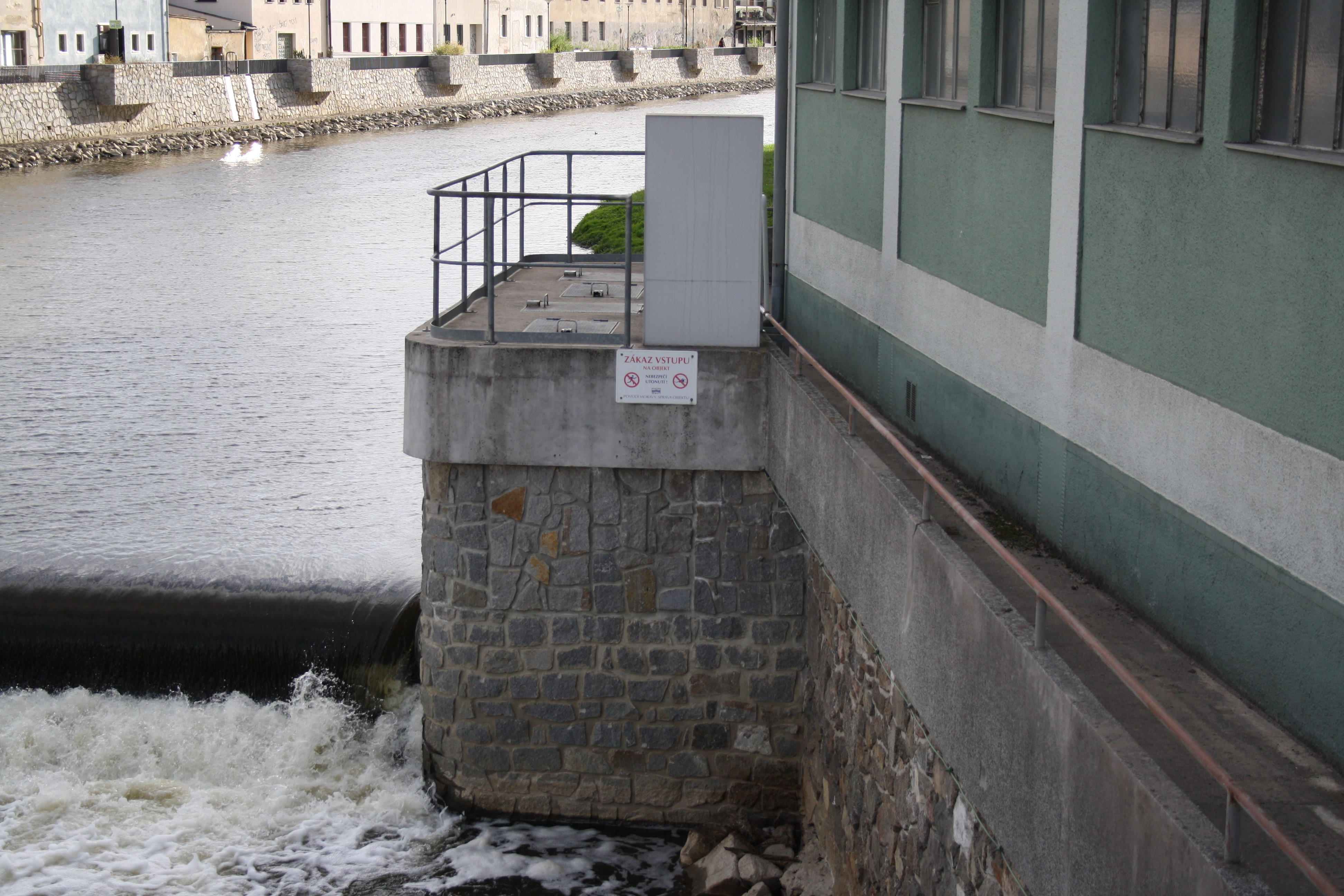 Technical equipment of weir of Jihlava River in Třebíč, Czech Republic.